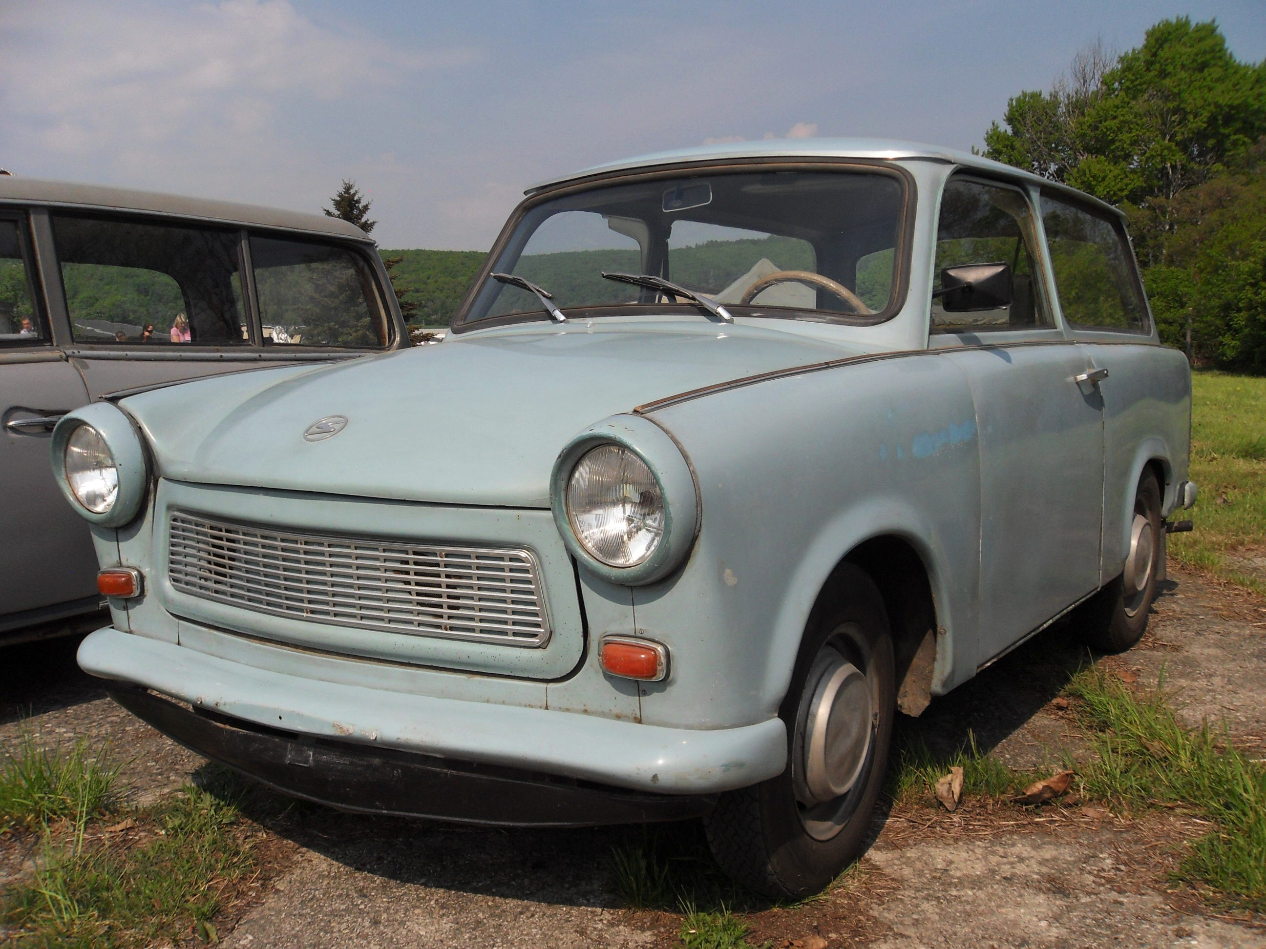 Trabant 601 Universal, depository of Technical Museum in Brno, Czech Republic